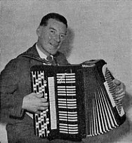 Helmer Nerlund, swedish accordion player during the 1930's and 1940's.